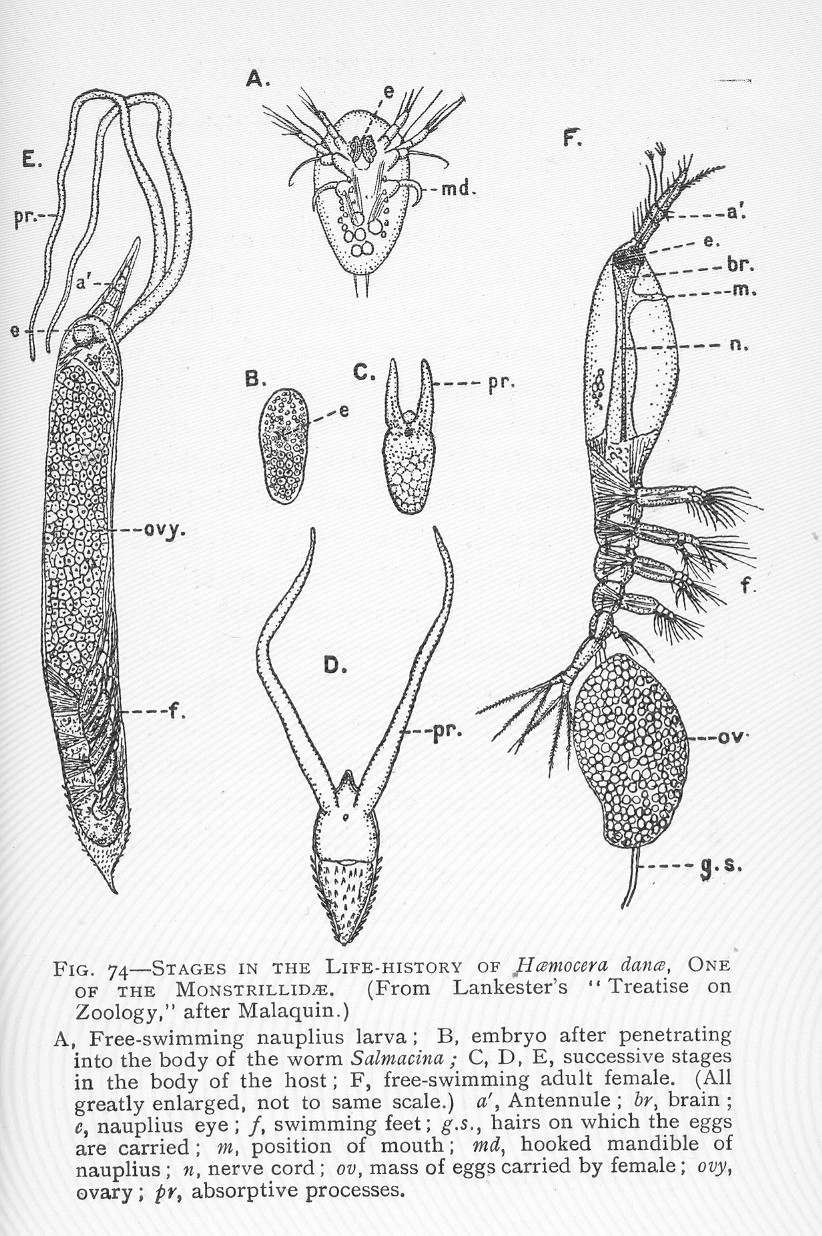 Stages in the life-history of Haemocera danae, one of the Monstrillidae A, Free-swimming nauplius larva; B, embryo after penetrating into the body of the worm Salmacina; C, D, E, successive stages in the body of the host; F, free-swimming adult female; a', Antennule; br, brain; e, nauplius eye; f, swimming feet; g.s., hairs on which the eggs are carried; m, position of mouth; md, hooked mandible of nauplius; n, nerve cord; ov, mass of eggs carried by female; ovy, ovary; pr, absorptive processes Subject: Monstrillidae, Haemocera, Parasites Tag: Invertebrates